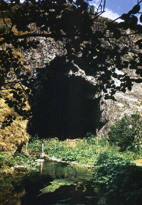 Kapova cave. Belaya River in the middle course.